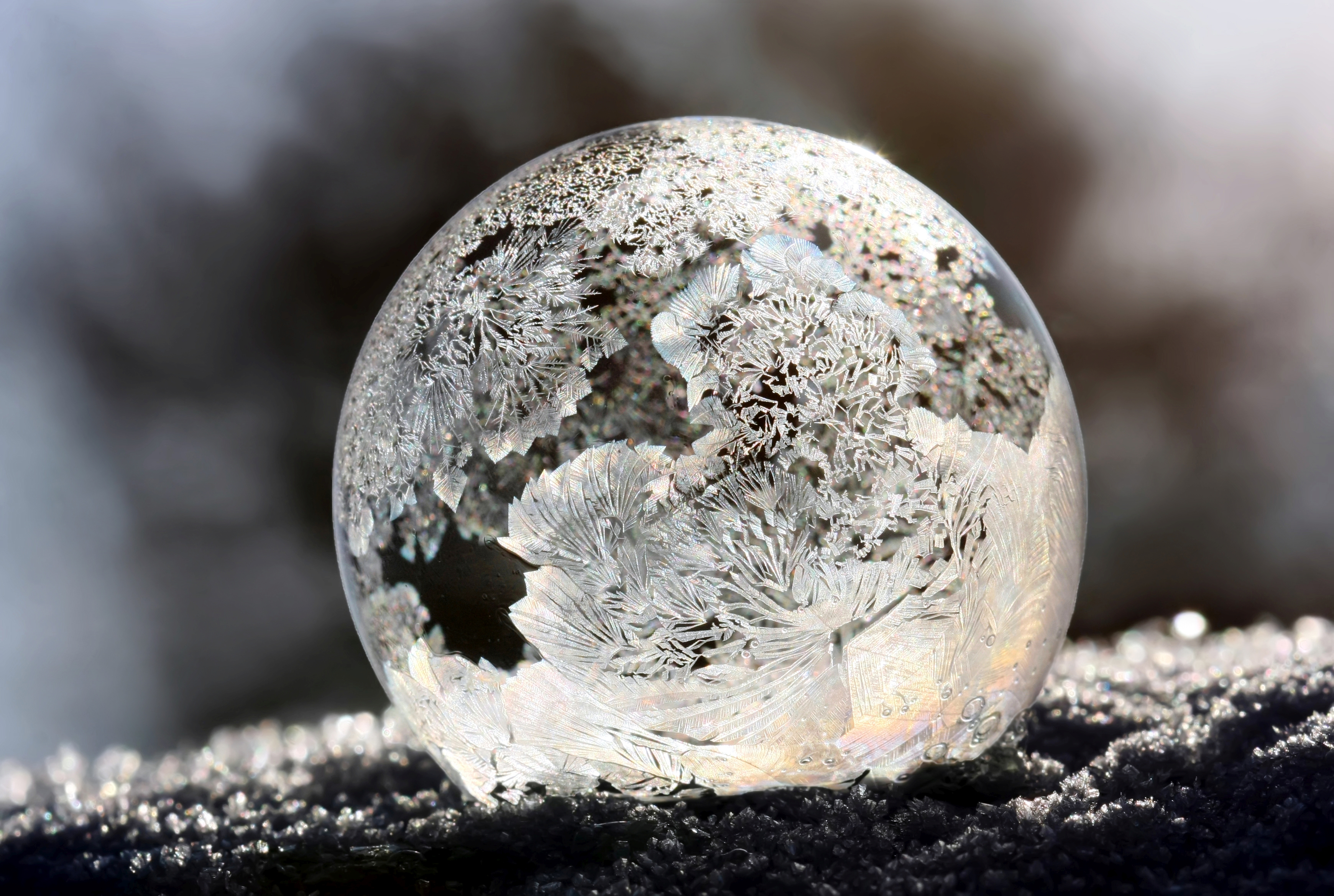 Frosted bubble